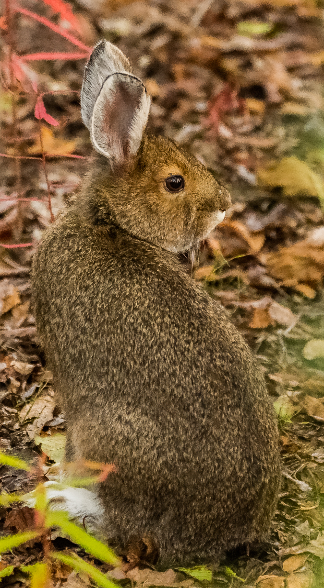 Snowshoe hare (Lepus americanus), Tetlin National Wildlife Refuge, Alaska, United States